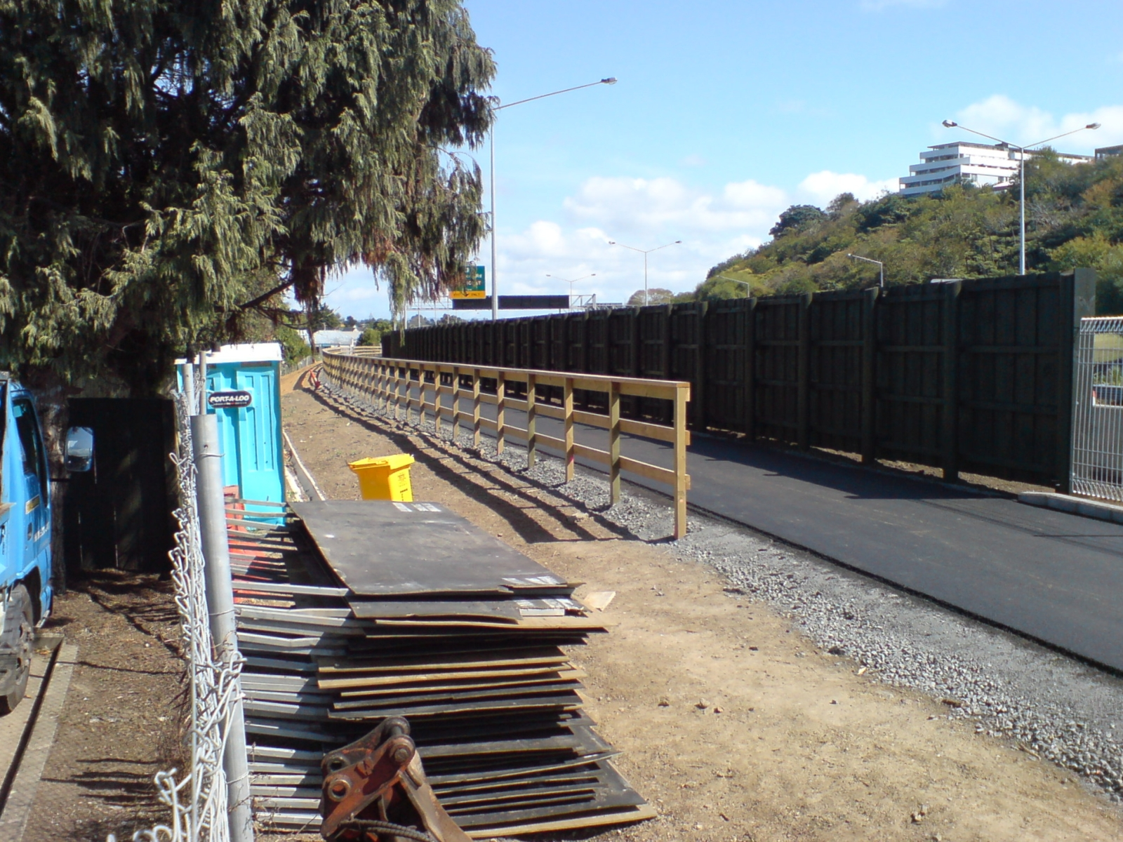 The new section of the Northwestern Cycleway in Auckland City, New Zealand. Noise wall under construction, early 2010.